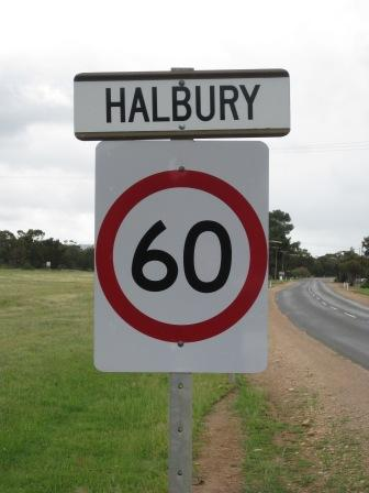 Western entrance sign to Halbury, South Australia.